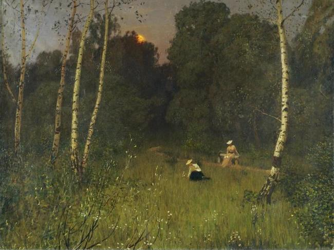 Twilight. 1909. Oil on canvas. 102.5 by 133.6 cm (40 1/2 by 52 1/2 in. Private Collection.